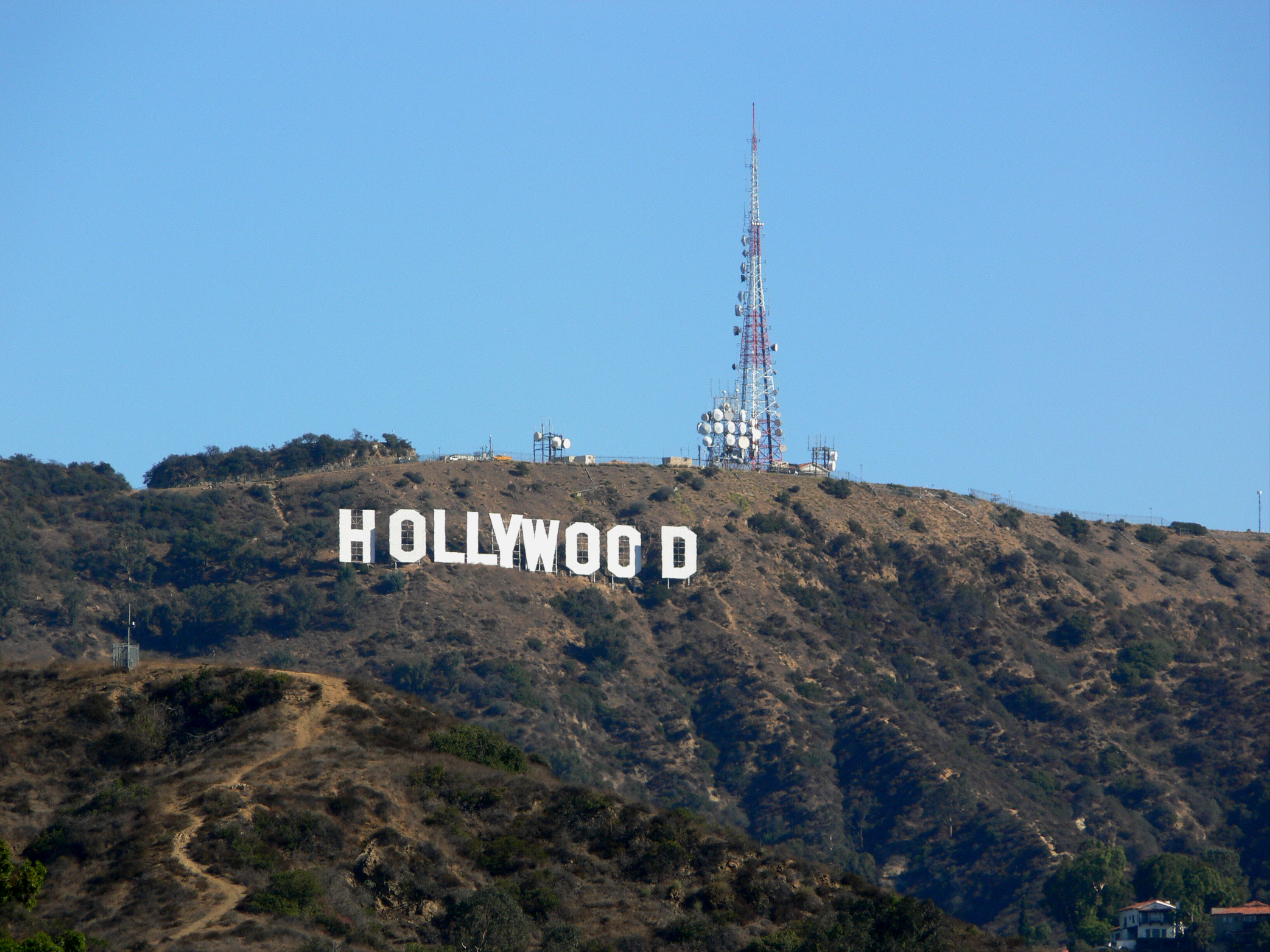 Hollywood Sign, Los Angeles, California